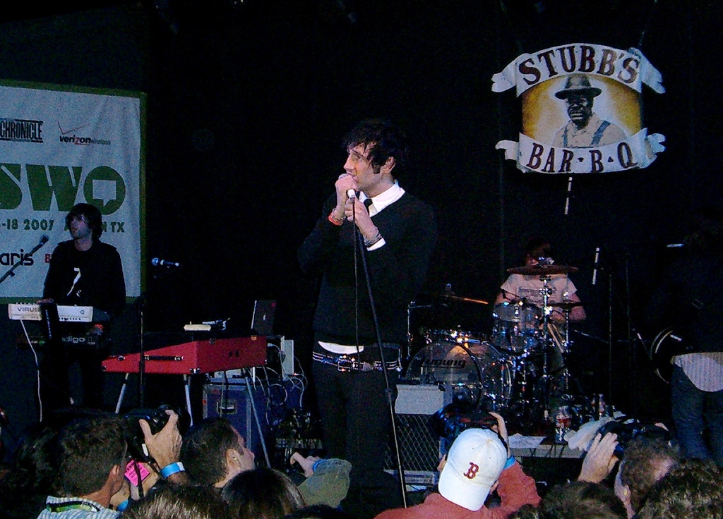 The Bravery 2007 concert